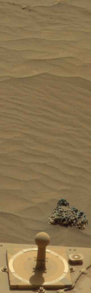 A true-color image of the MarsDial taken by the Spirit rover. Created using images taken in filters L2, L3, L4, L5, L6 & L7. Images were interpolated into the XYZ colorspace using a spline interpolation of order 3 and then transformed into the sBGR colorspace.